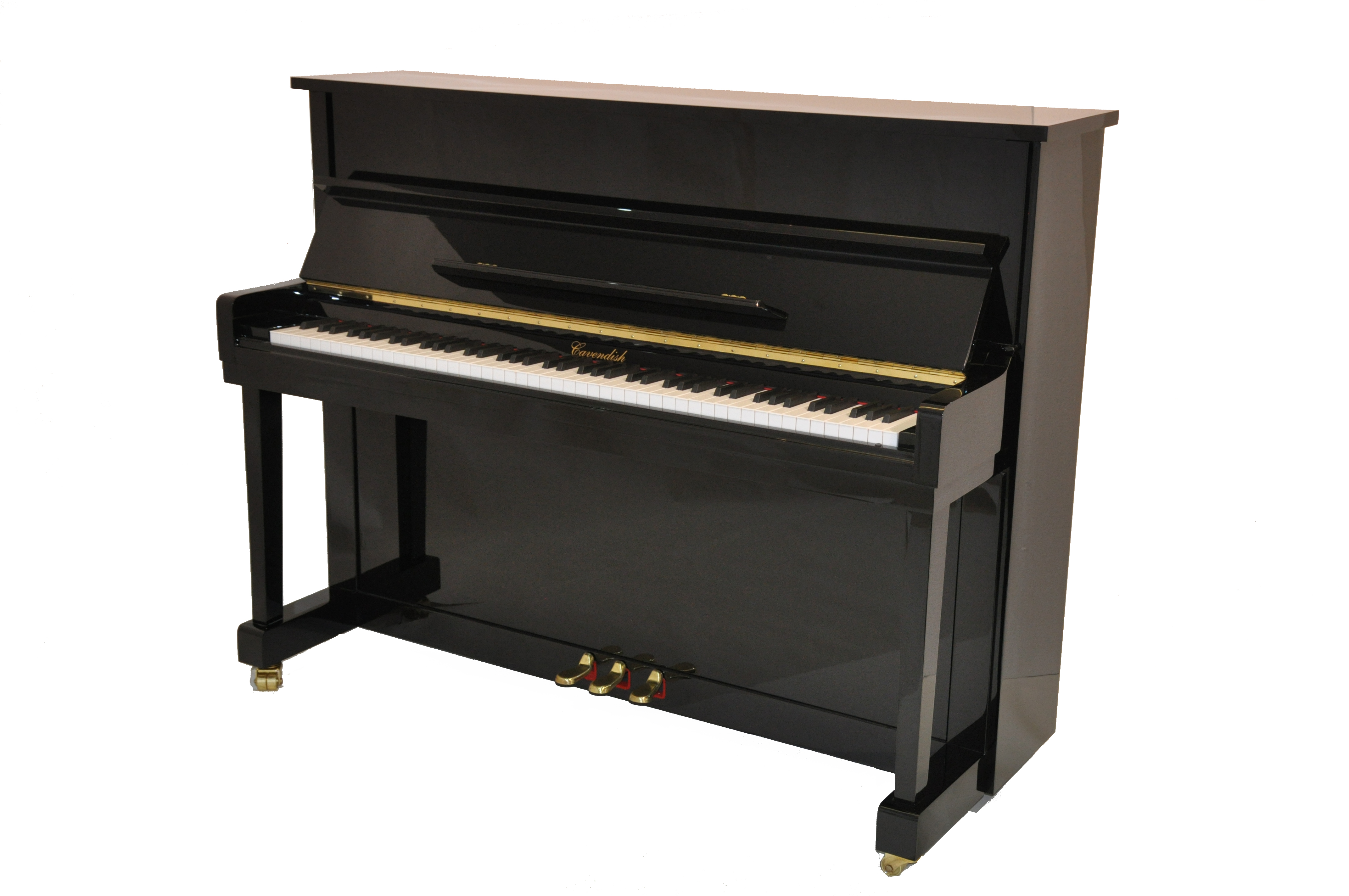 Cavendish Classic 112 model